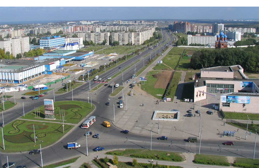 Novoyuzhny microraion